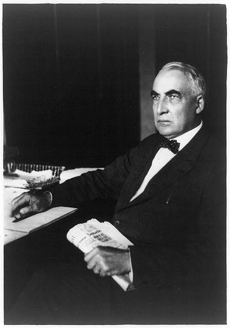 Warren G. Harding, seated at desk, wearing bow-tie, with newspaper in hand.